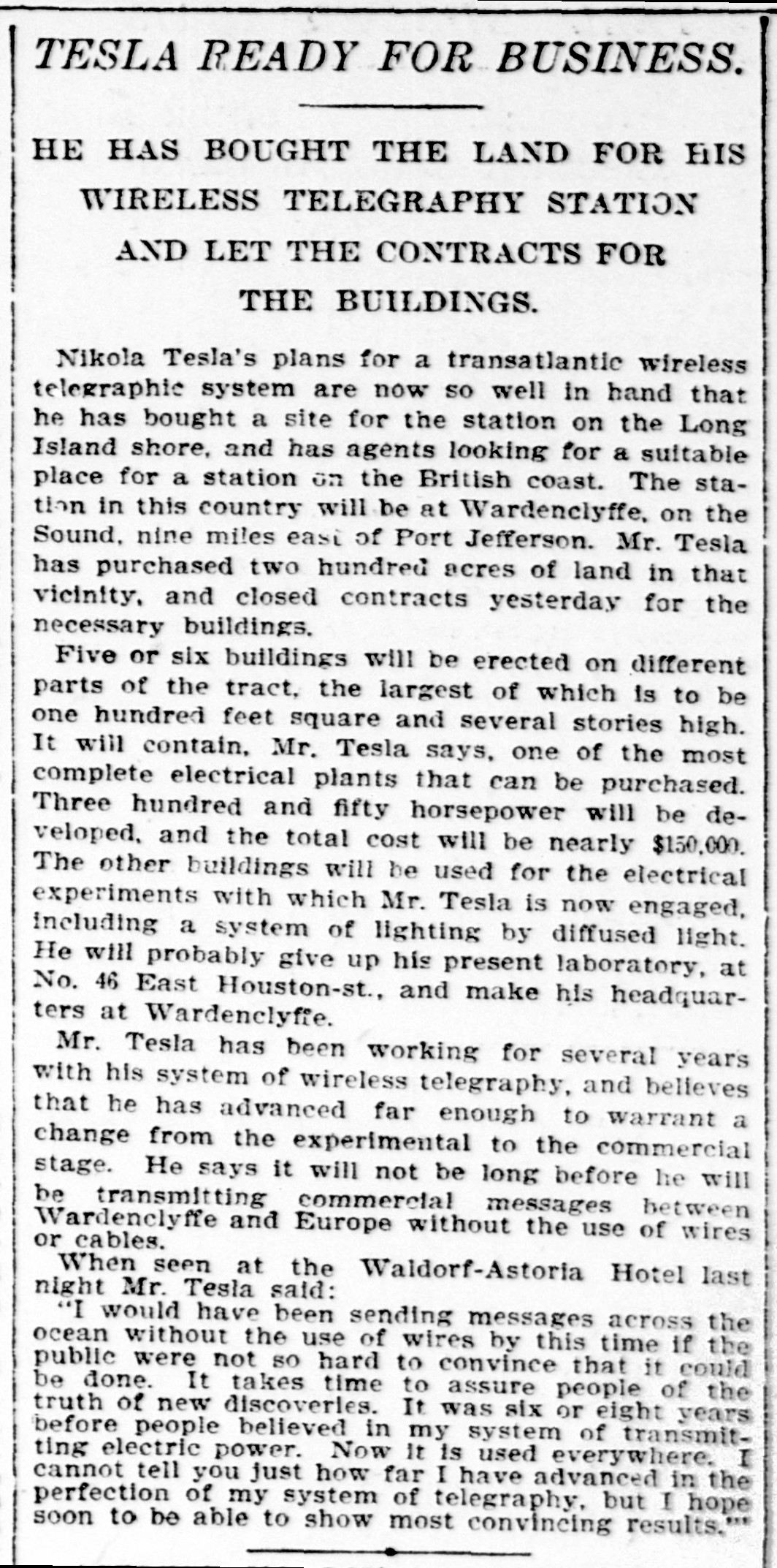 Tesla Ready for Business., New-York tribune., August 07, 1901, Page 4, Image 4